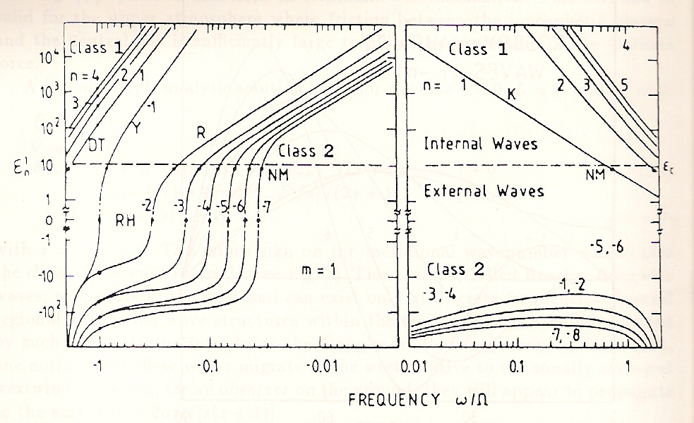 Eigenvalue